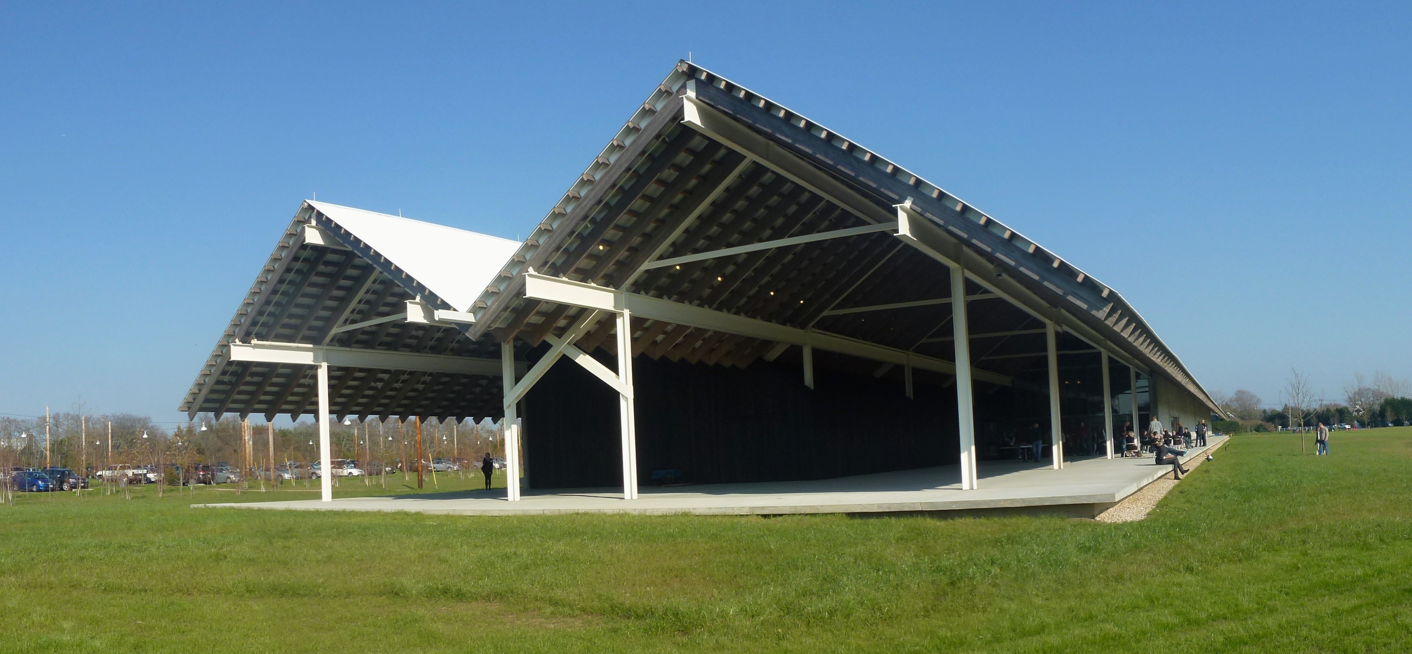 Parrish Art Museum in Watermill, New York